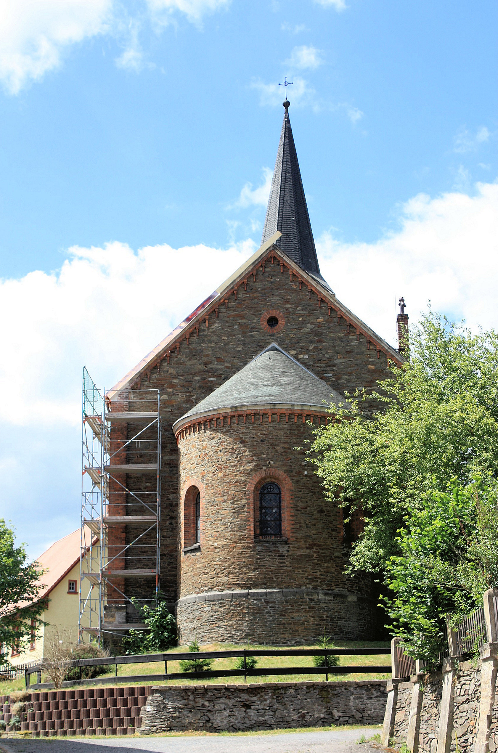 Güntersberge (Harzgerode), the church St. Martini